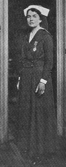 Full-length black-and-white photograph of a white woman, Grace Gassette, wearing a dark nurse's uniform with a medal pinned to her chest; from a 1918 publication.